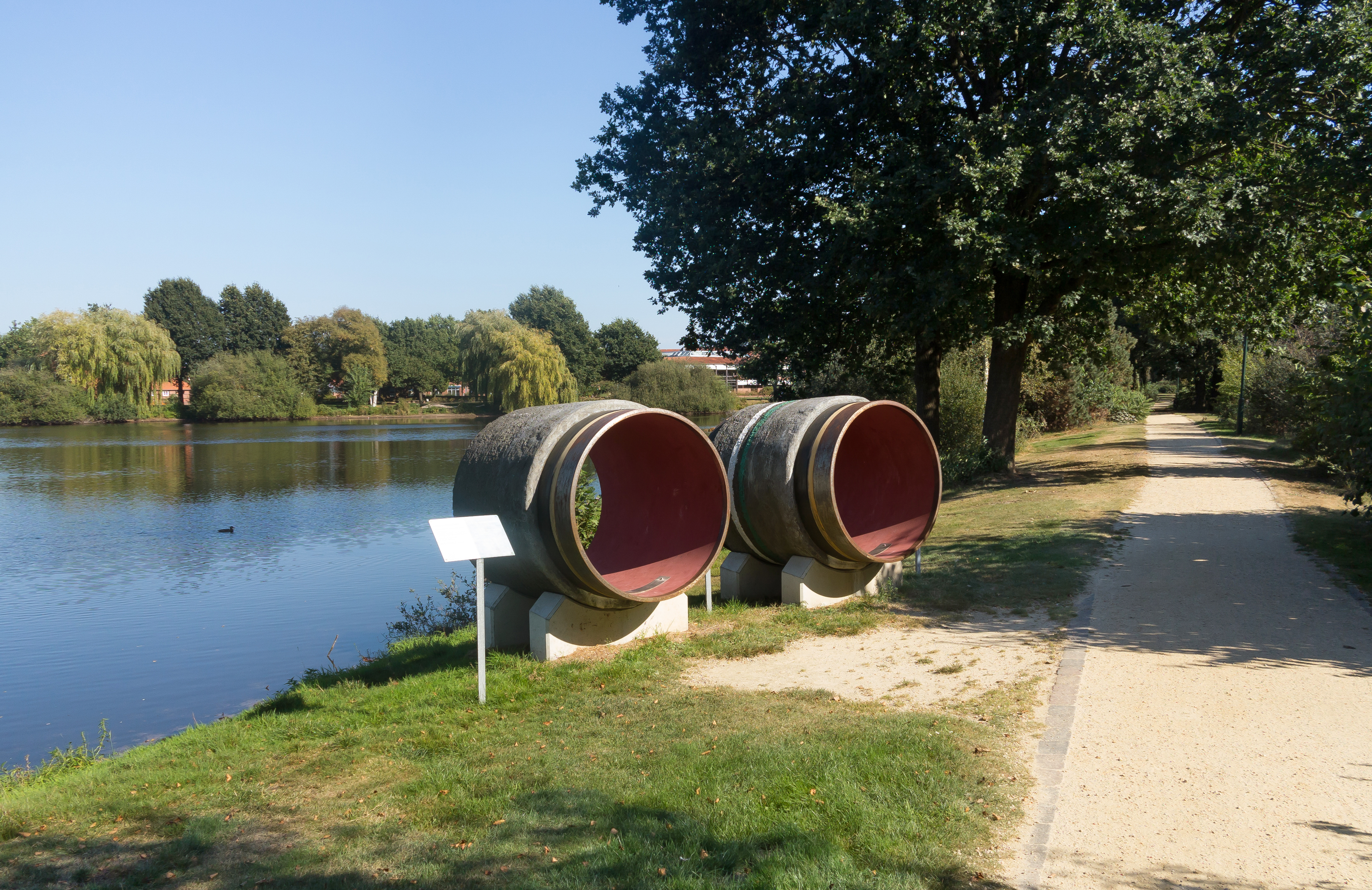 Twist, sculpture Nord Stream Doppelpipeline